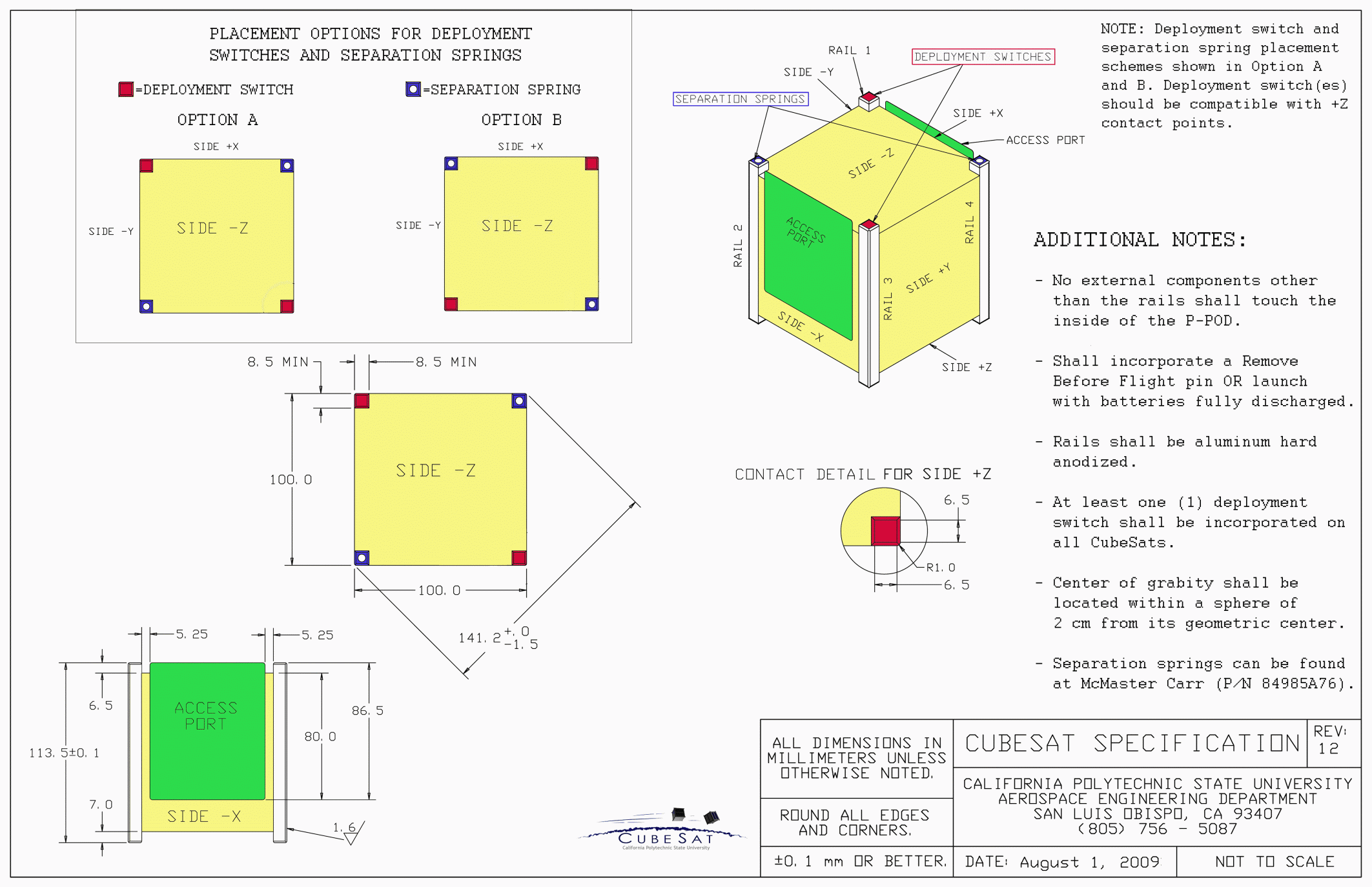 Physical dimensions of a 1U cubesat as given in the CubeSat Design Specification rev. 12